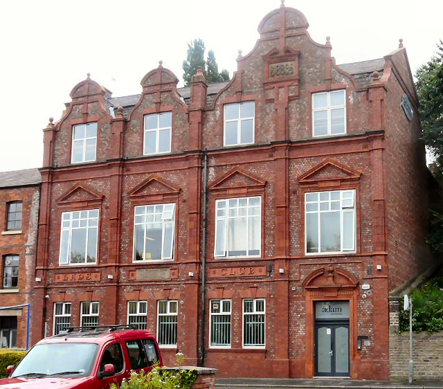 Stockport Lads Club. Stockport Lads Club was founded in 1889; it's memorial stone 1418913 was laid by the Mayor of Stockport, Joseph Leigh, who was to become actively involved in the club in later years as a trustee. In 1956 the club moved to new premises in Hempshaw Lane. The building is now occupied by a Building Energy Management Systems company.